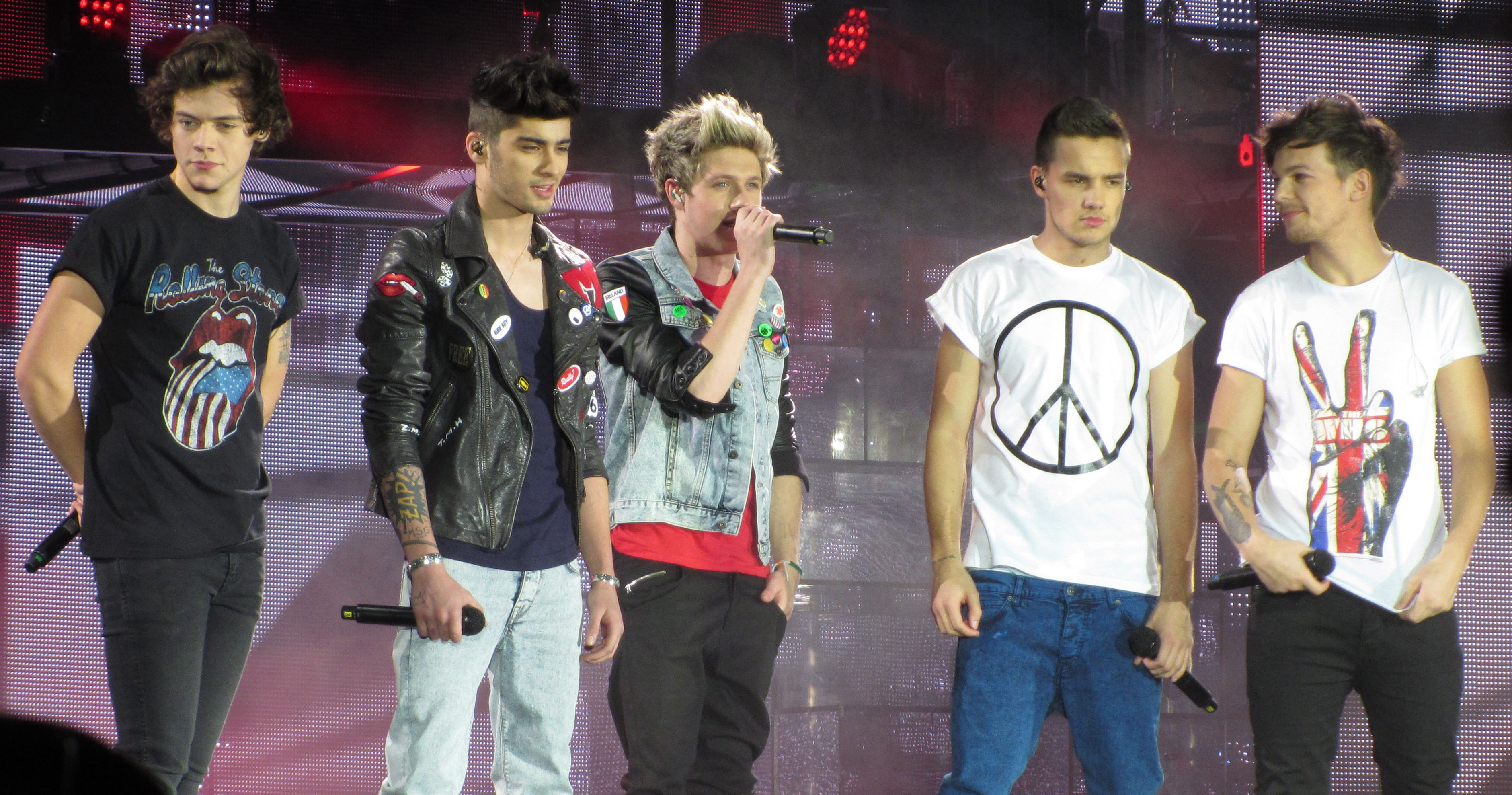 One Direction, Scottish Exhibition and Conference Centre (SECC), Glasgow, Wednesday 27 February 2013, Take Me Home Tour.